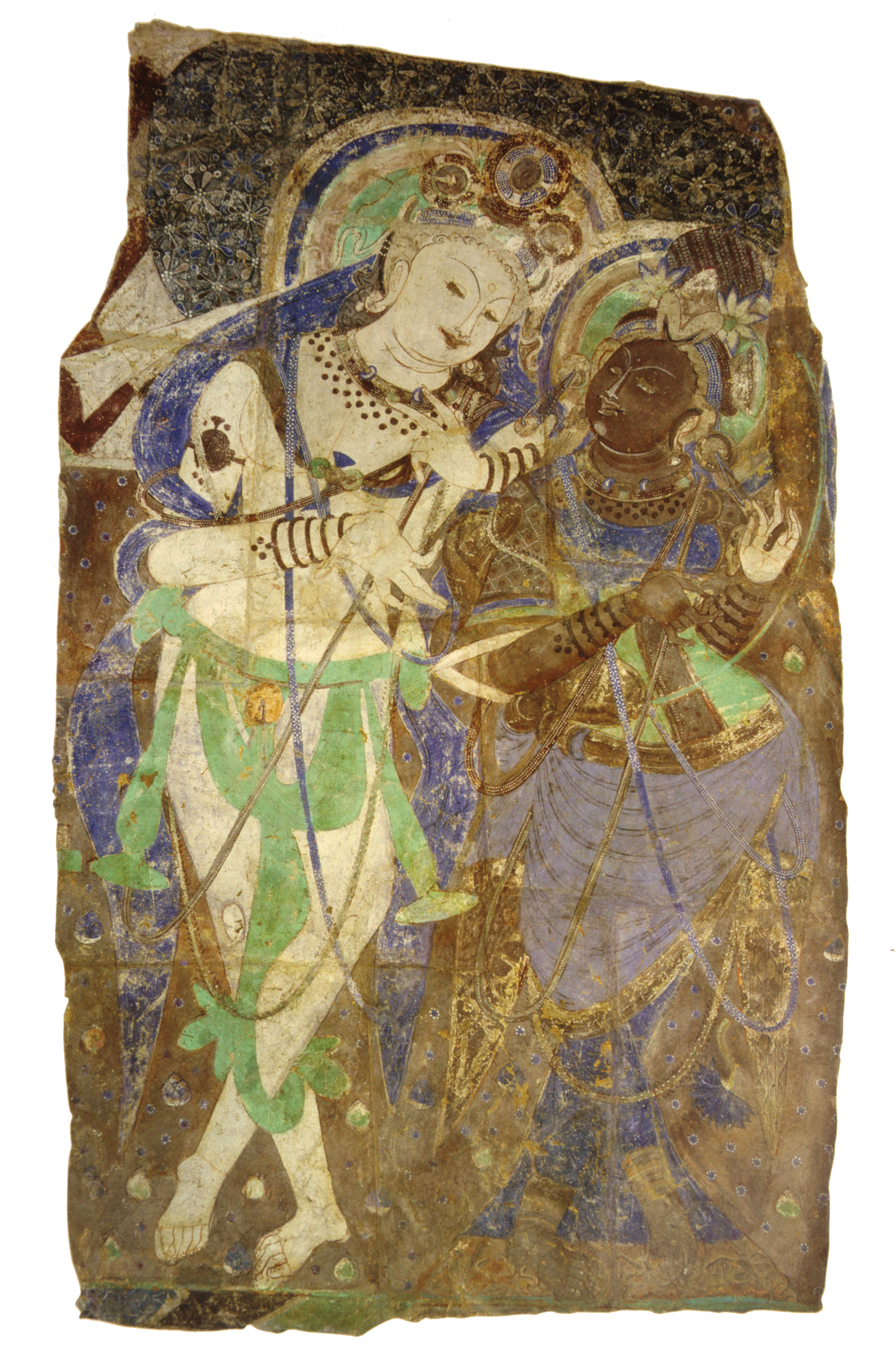 Goddess and celestial musician. Painting on wall. Kizil, north-west of China. Height: 2.03 m.